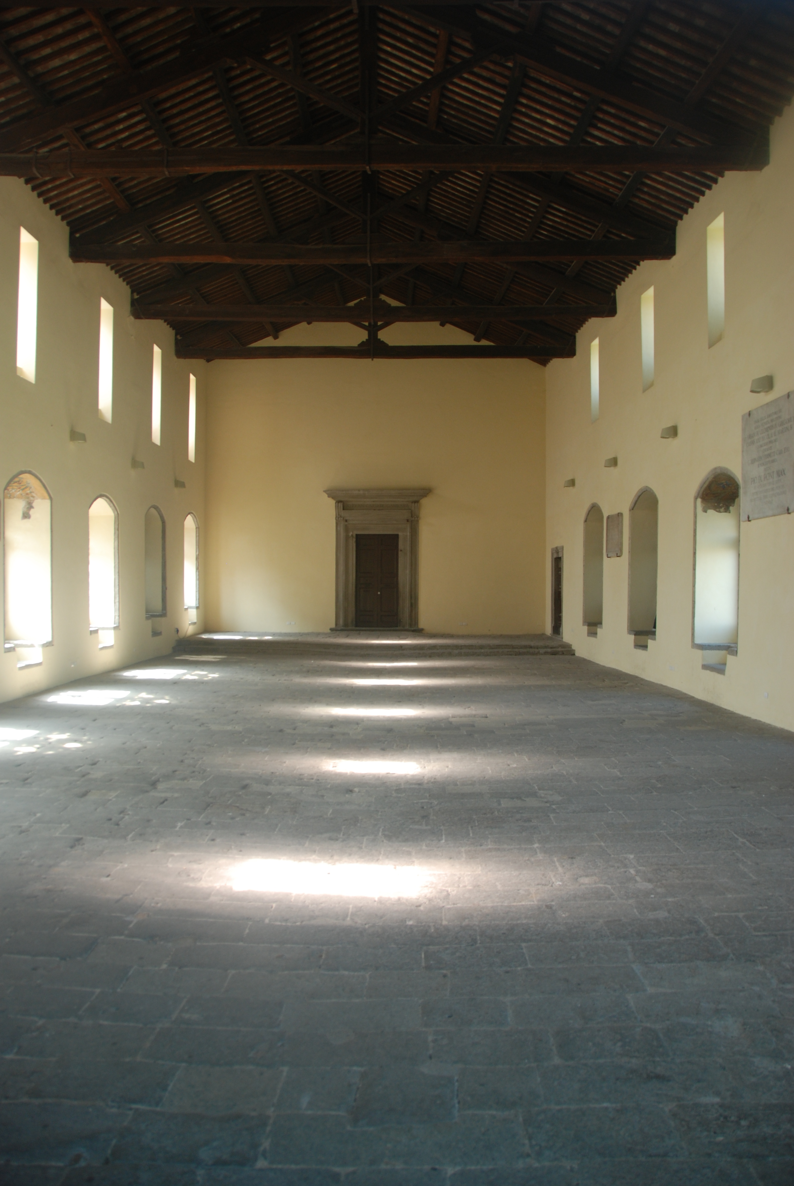 Inside Papal Palace, Viterbo, Italy